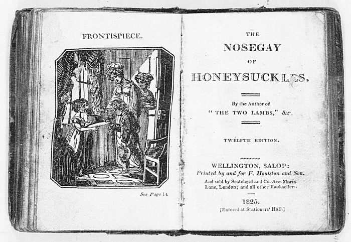 Nosegay of Honeysuckles book